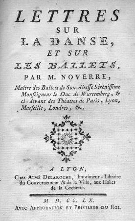 Title page of Lettres sur la danse et sur les ballets by Jean-Georges Noverre